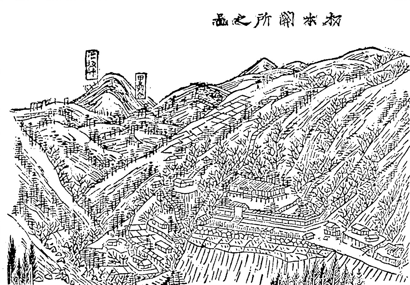 National Diet Library Digital Collection This image is available from the website of the National Diet Library This tag does not indicate the copyright status of the attached work. A normal copyright tag is still required. See Commons:Licensing. English | 日本語 | +/−